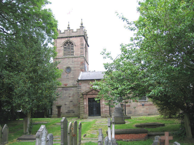 St. Michaels Church and graveyard Looking North across the graveyard.